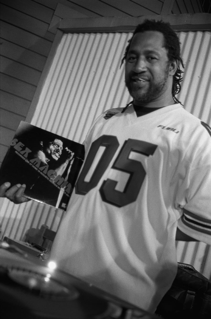 DJ Kool Herc with James Brown single, two important men